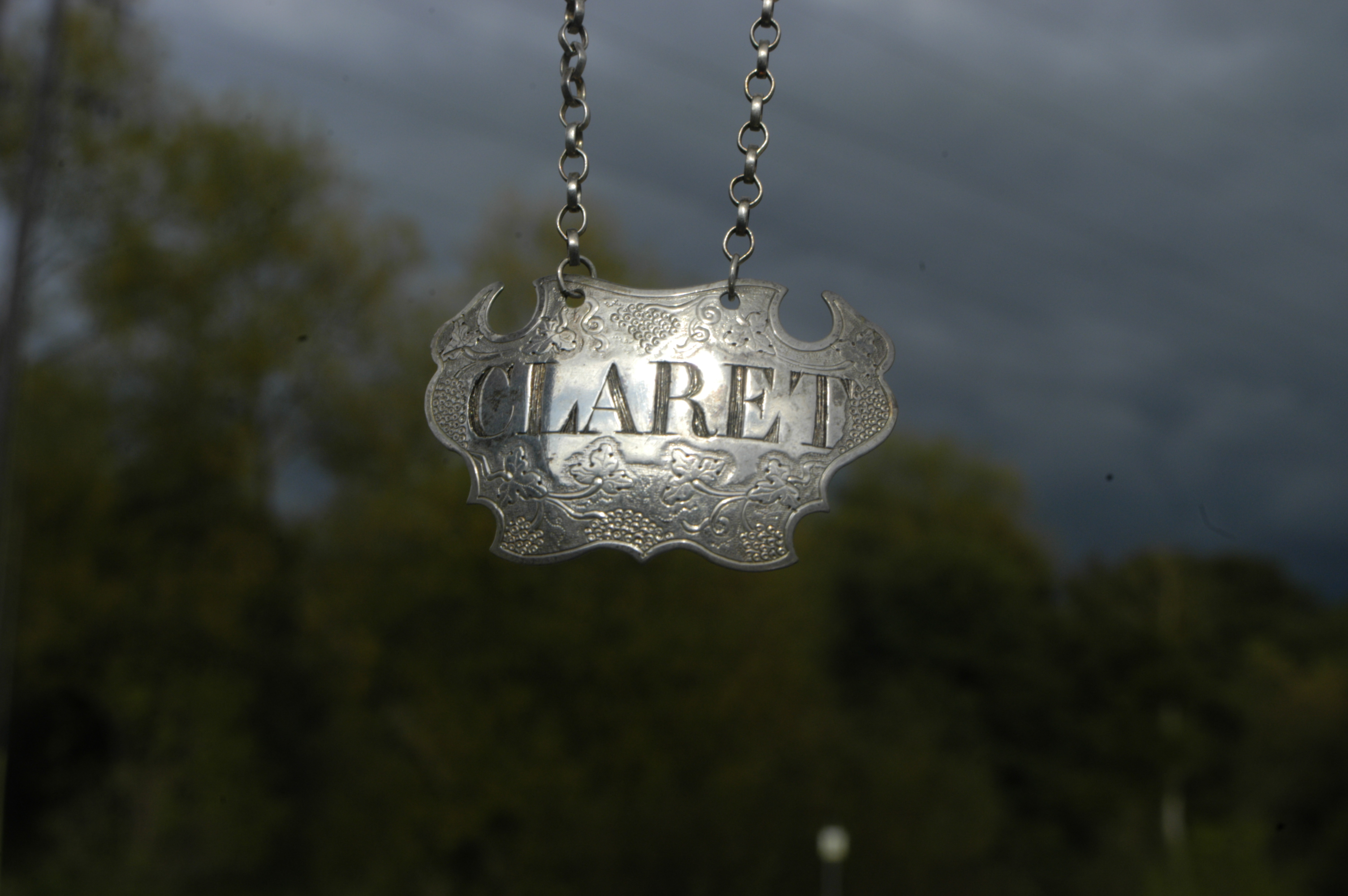 Photo (by me, R. de Salis, Rodolph (talk) 11:17, 21 October 2015 (UTC)) of a Claret, English silver bottle ticket, by Sandylands Drinkwater, circa 1740 or 1750. Other information 2015 photo (by me, R. de Salis, Rodolph (talk) 11:17, 21 October 2015 (UTC)) of a work of art by Sandylands Drinkwater, of London, Great Britain, circa 1740 or 1750.